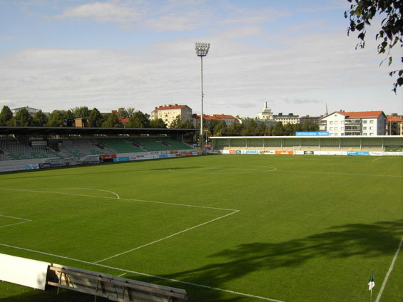 AT-Areena